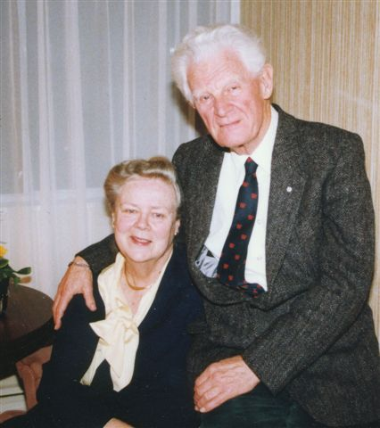 Family photo of Ruth & George Stanley